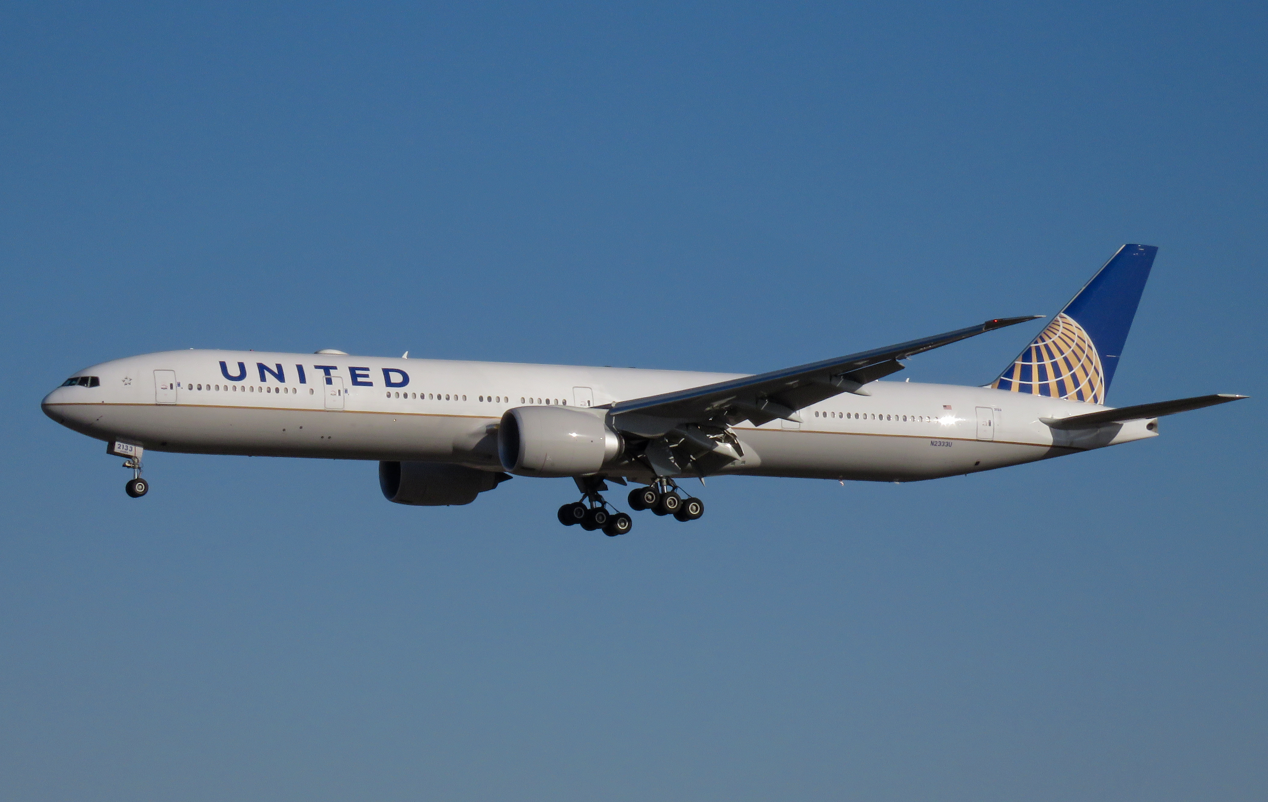 United 888 from San Francisco, using this "Spirit of Hilarity" - 2333, a hilarious number, is included in its registration, while the reason for its hilarity dates back to the heyday of , where its emoji No. 233 means laughing out loudly while punching the ground. This emoticon code later become a substitute of the emoji it represents, enabling people to add several "3"s to emphasise hilarity. It coincided with another emoji, Huaji (滑稽, literally "hilarious"), after several years.